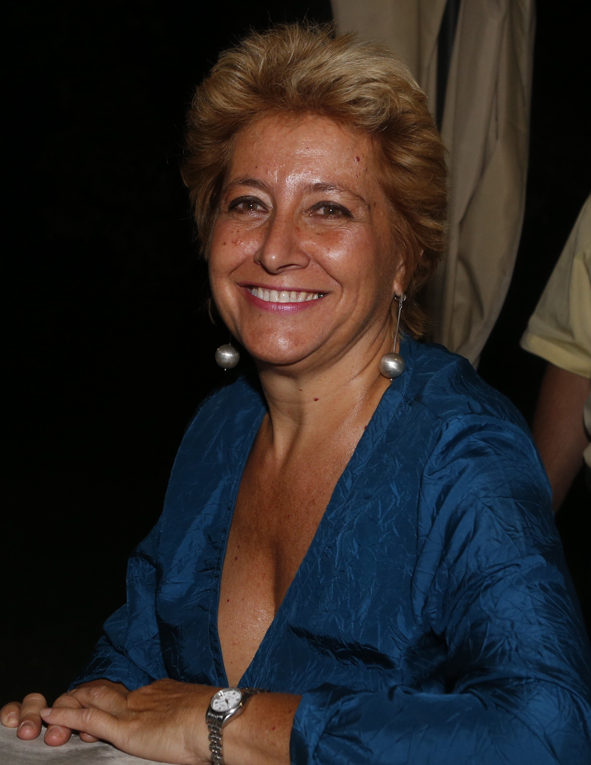 Belén Boville Luca de Tena, escritora y periodista